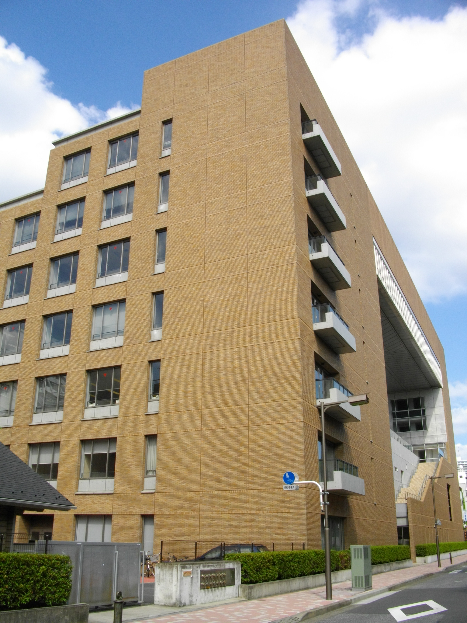 Nakamura Junior & Senior Girls' High School